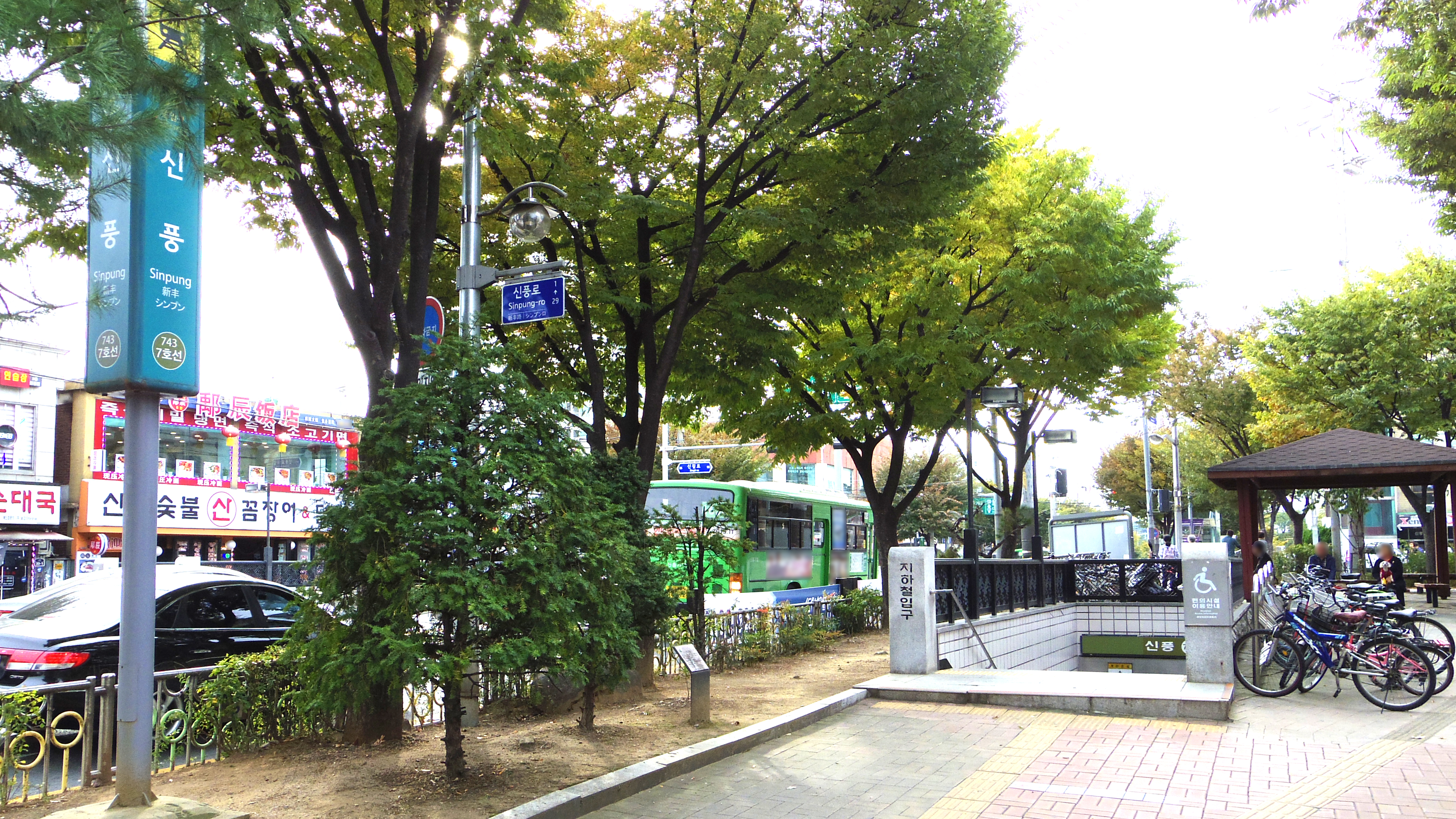 The no.5 entrance to Sinpung Station on the Seoul Metro Line 7 in Yeongdeungpo-gu, Seoul, Republic of Korea(South Korea)